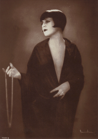 Lya De Putti